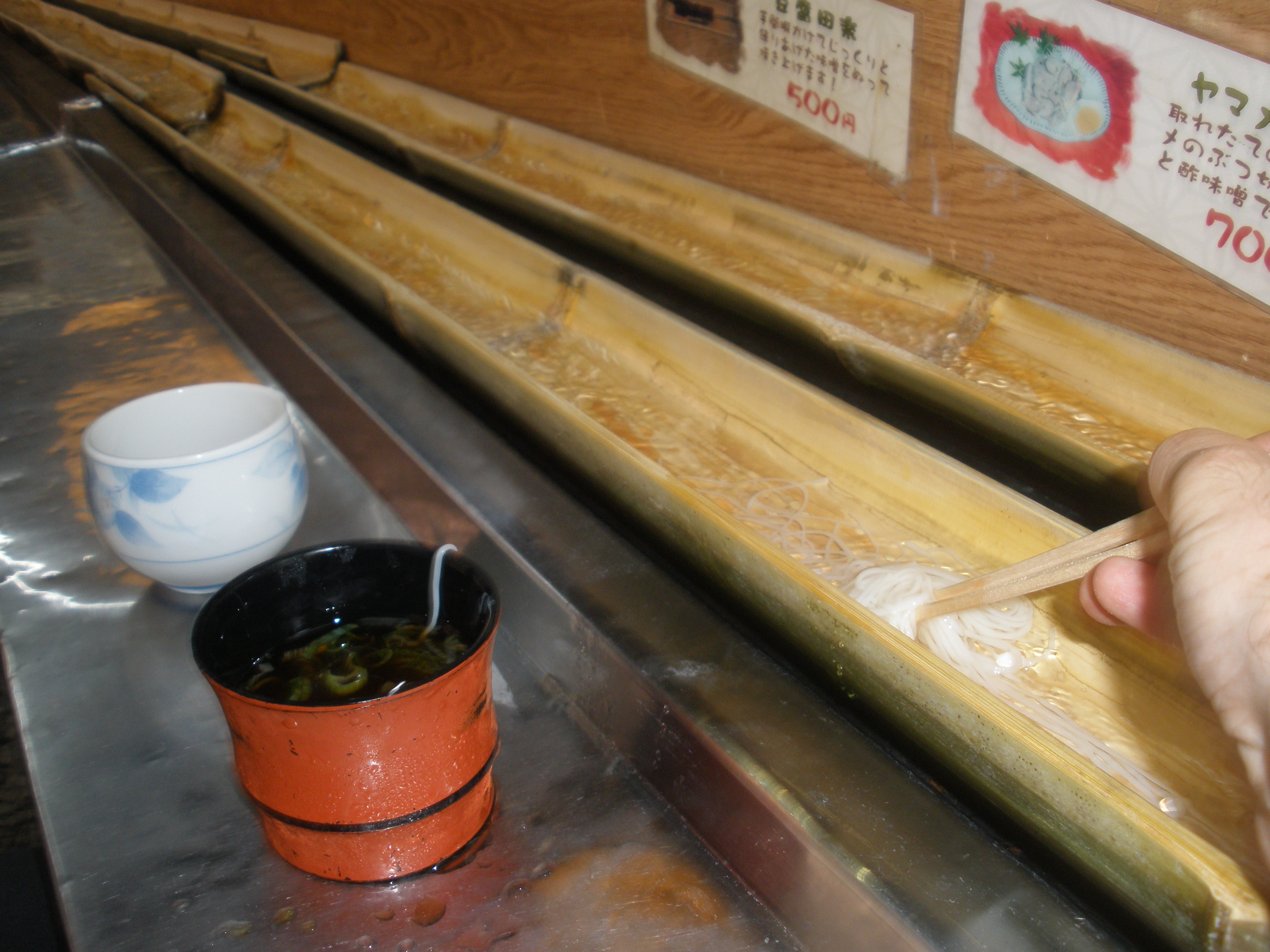 Nagashi Somen Dining, Miyazaki (prefecture).